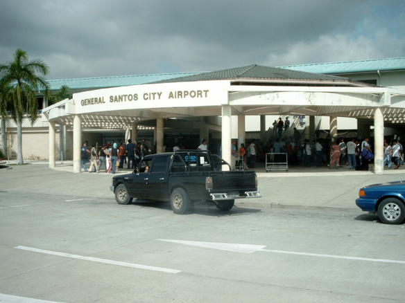 General Santos Airport, Philippines